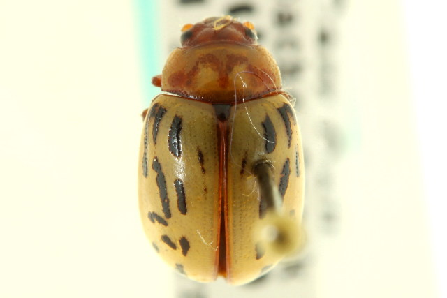 Zygogramma conjuncta (Subspecies pallida)